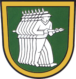 Coat of Arms of Schwobfeld